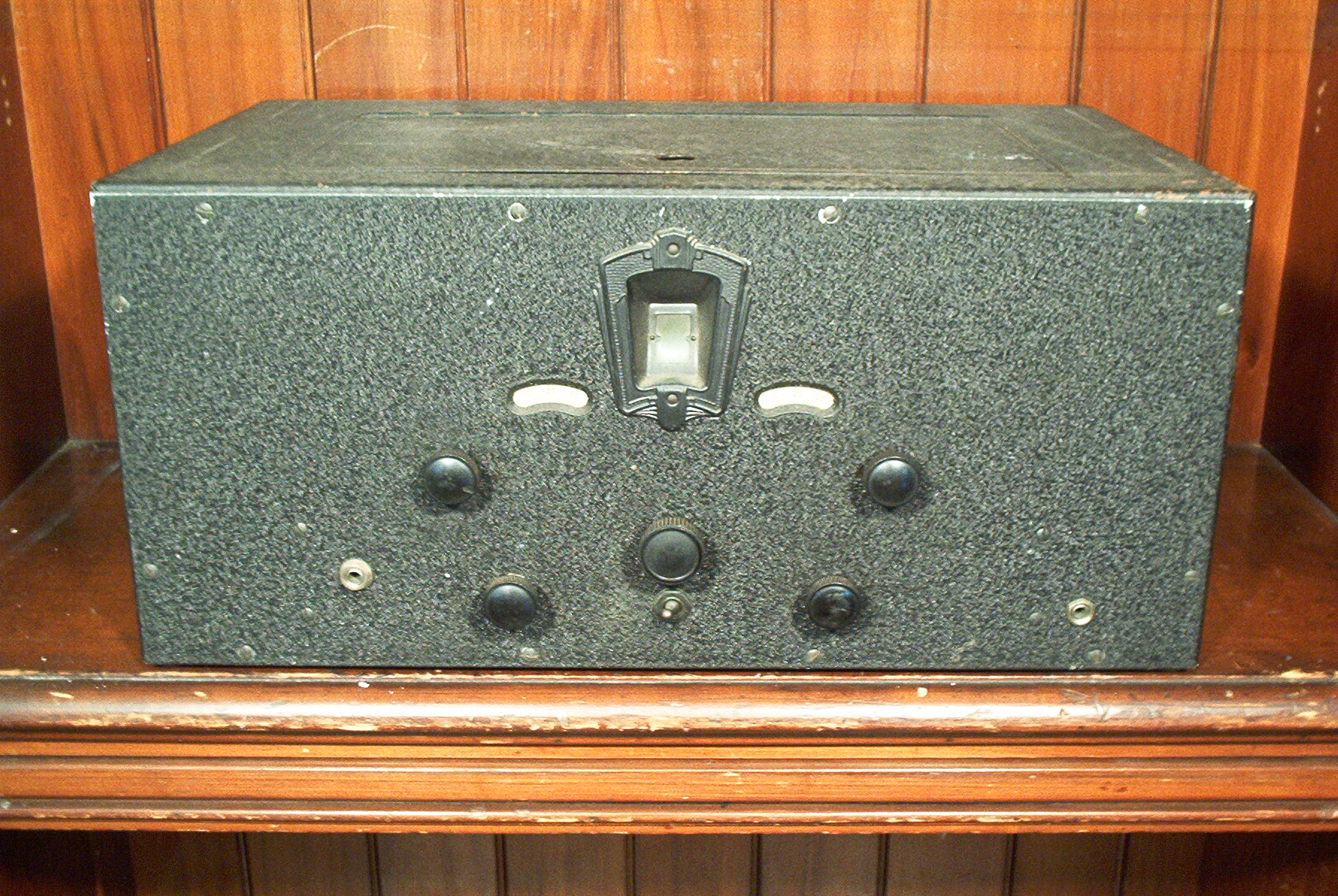 Hammarlund Comet Pro shortwave radio. From the historic collection at Ladd Observatory